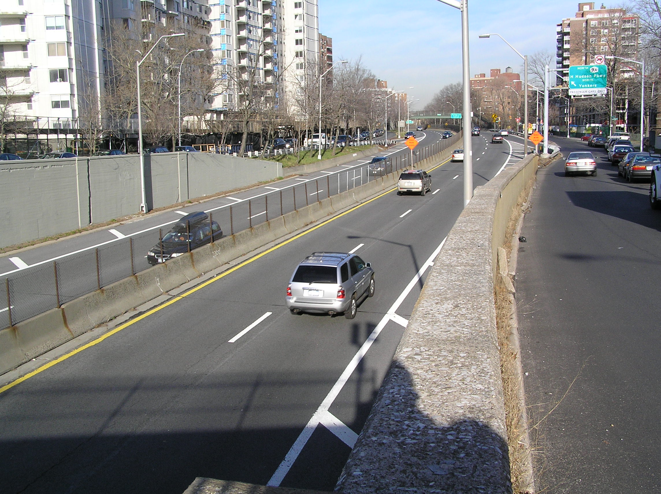 The northbound Henry Hudson Parkway in Riverdale. The parkway is lined with apartment buildings.